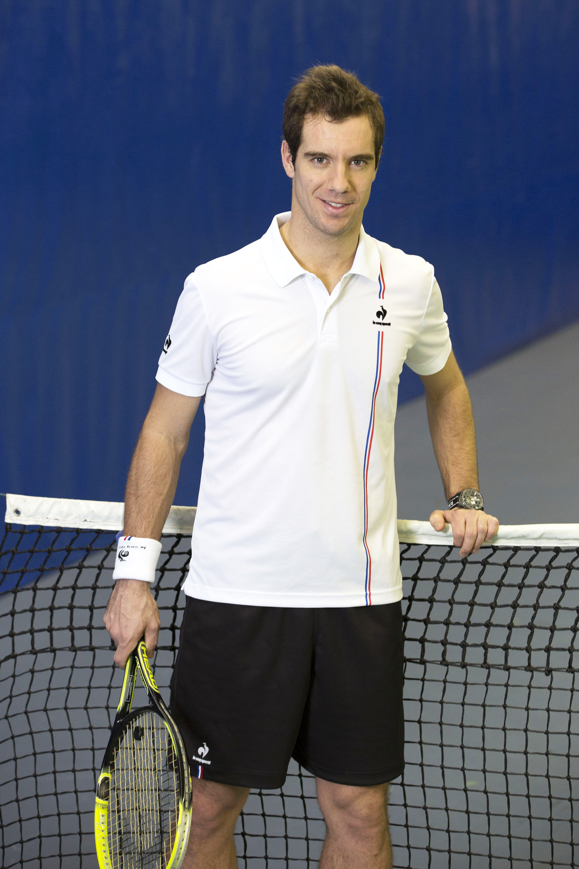 RICHARD GASQUET